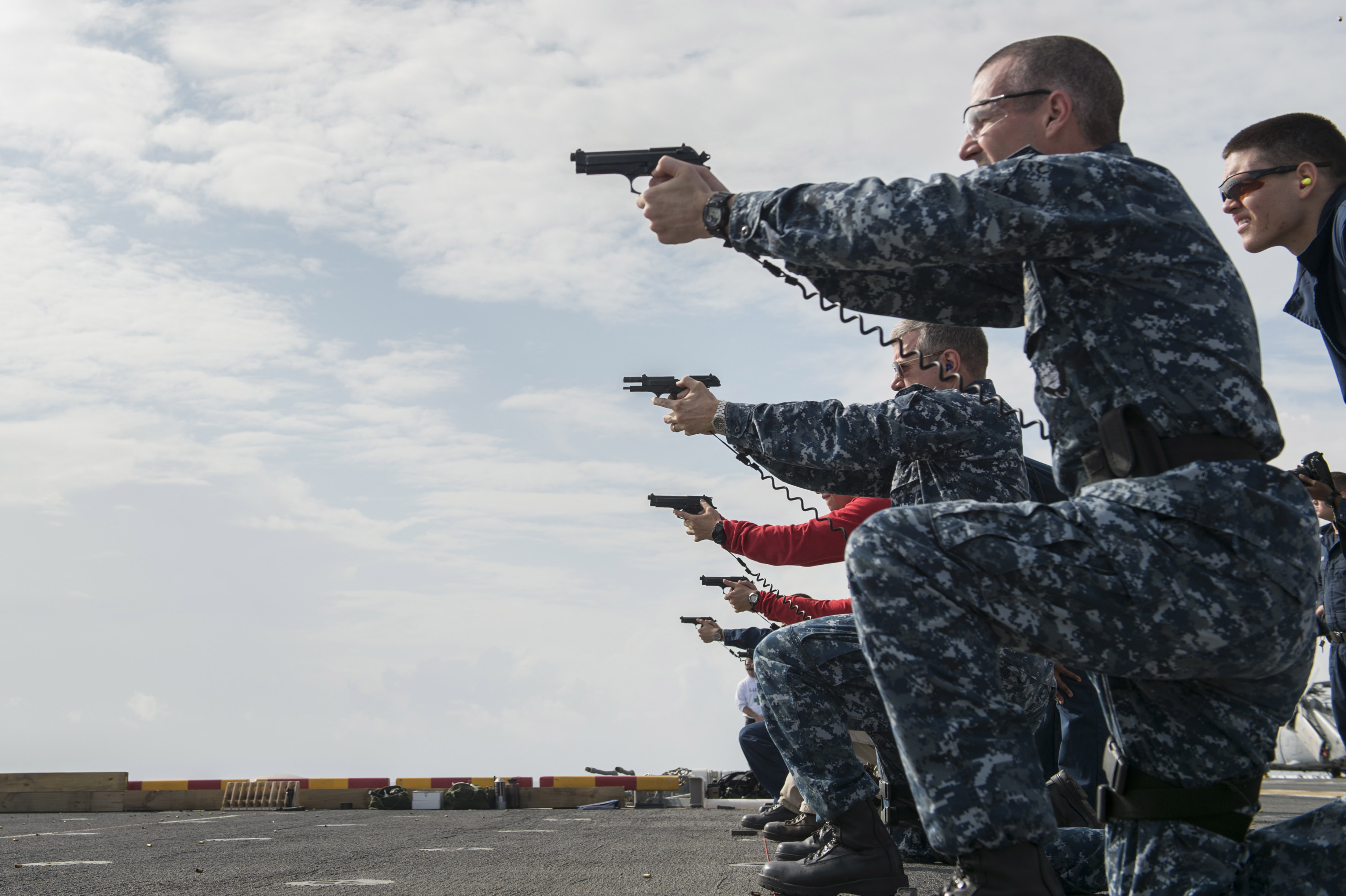 U.S. Navy Command Master Chief Chad Lunsford and Sailors with a weapons department fire 9 mm pistols during a small-arms qualification course July 28, 2014, on the flight deck of the amphibious assault ship USS America (LHA 6) in the Atlantic Ocean. The America embarked on a mission to conduct training engagements with partner nations throughout the Americas before reporting to its new home port of San Diego. The America is set to be ceremoniously commissioned Oct. 11, 2014. (U.S. Navy photo by Mass Communication Specialist 3rd Class Huey D. Younger Jr./Released)